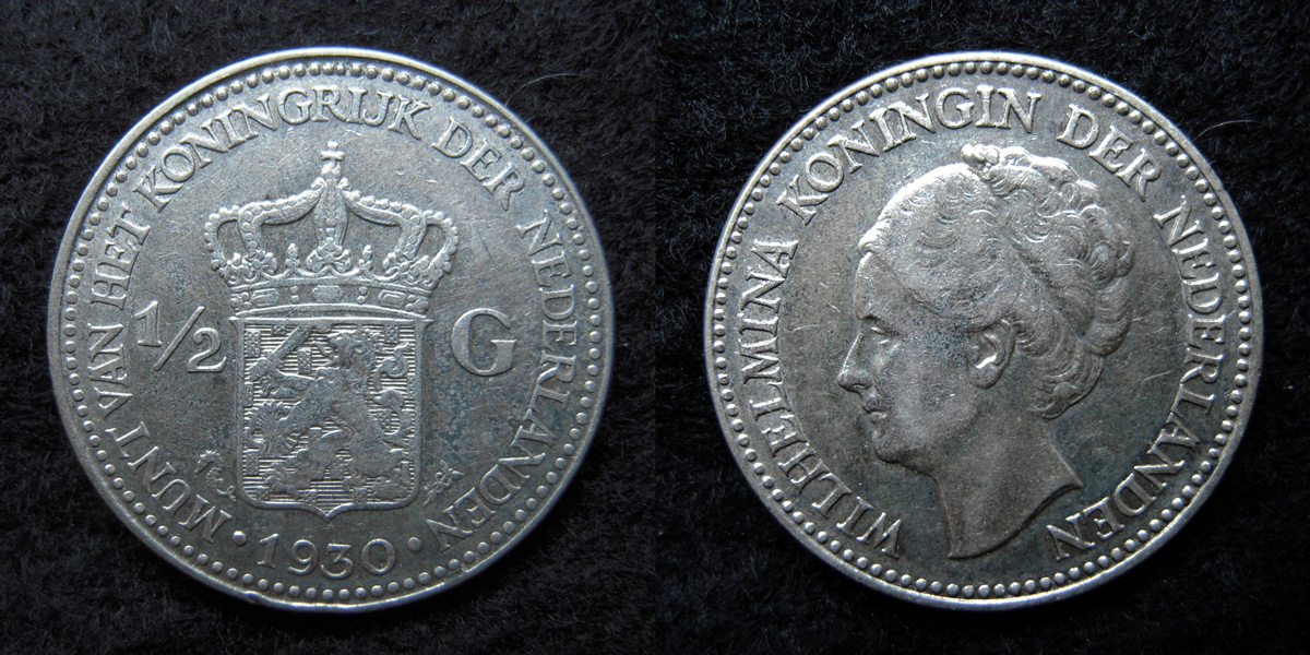 Half Guider of queen Wilhelmina, 1930, silver.